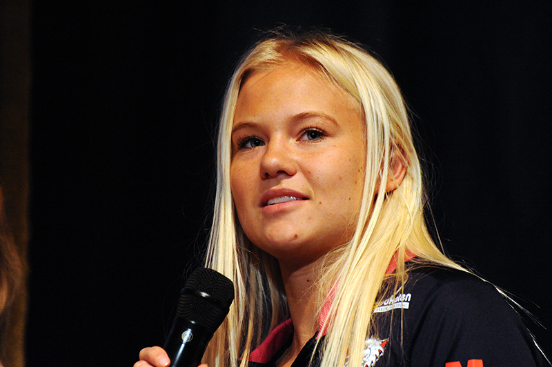 Danish footballer Pernille Harder